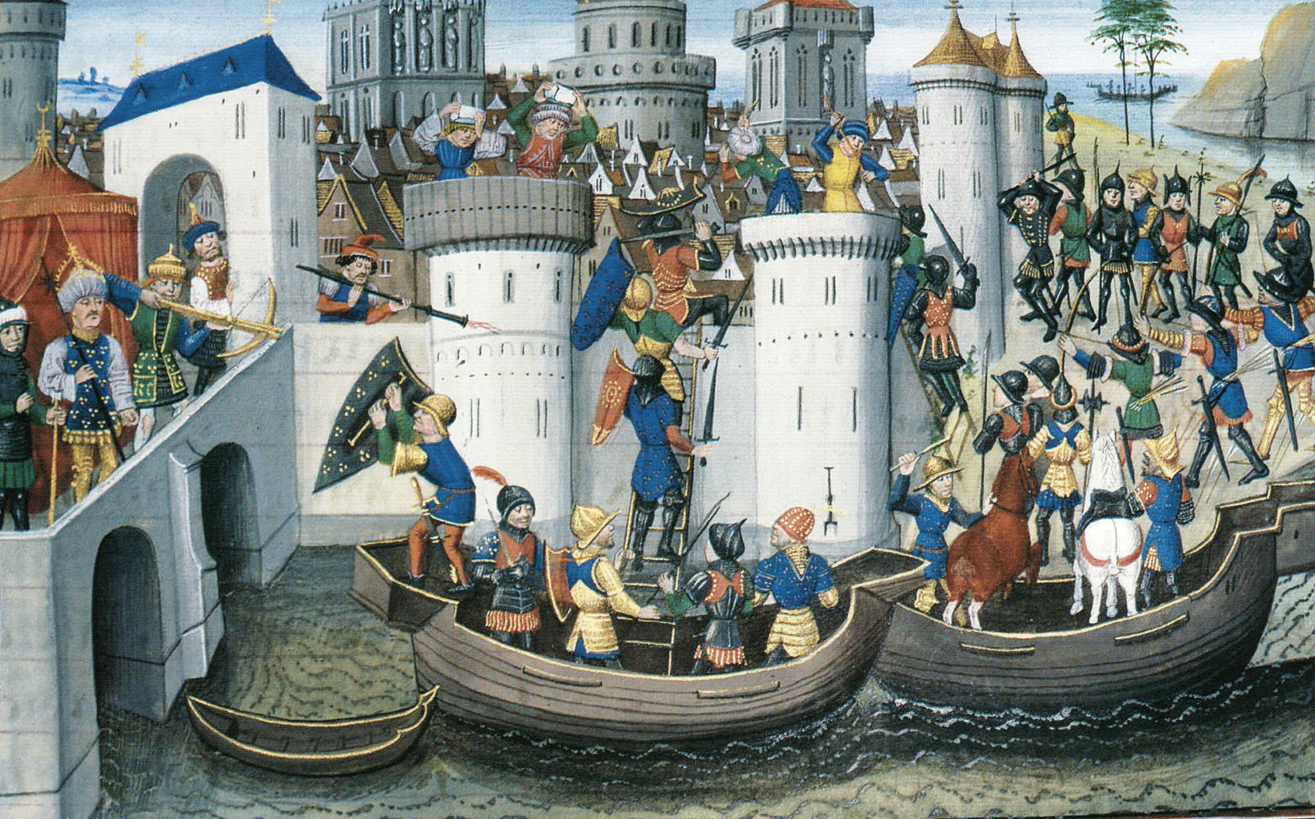 ConquestOf Constantinople By The Crusaders In 1204